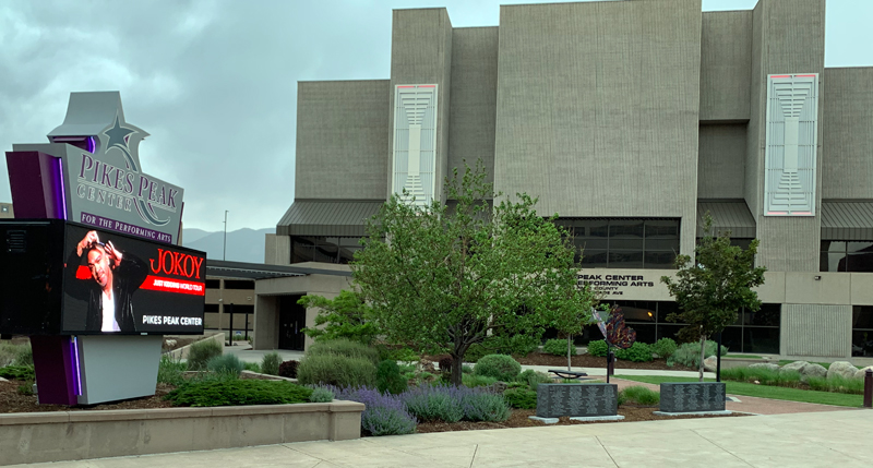 Photo of the main entrance to the Pikes Peak Performing Arts Center, in Colorado Springs, Colorado. It shows the facade of the building, including the artwork, "Cascading Light" by Collin Parson. The digital marquee highlights a performance by Jo Koy, for his "Just Kidding World Tour", on August 7, 2020.